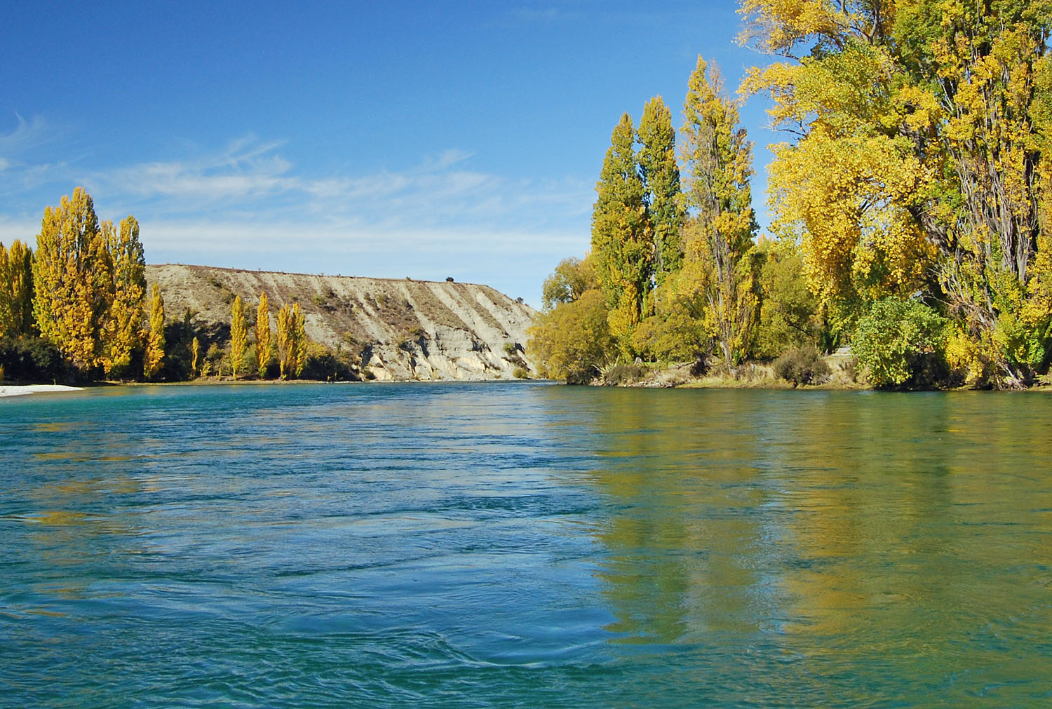 Photograph of the Clutha Mata-Au River at Albert Town, Central Otago, New Zealand. The view is downriver adjacent the confluence of the Hawea River on the left.